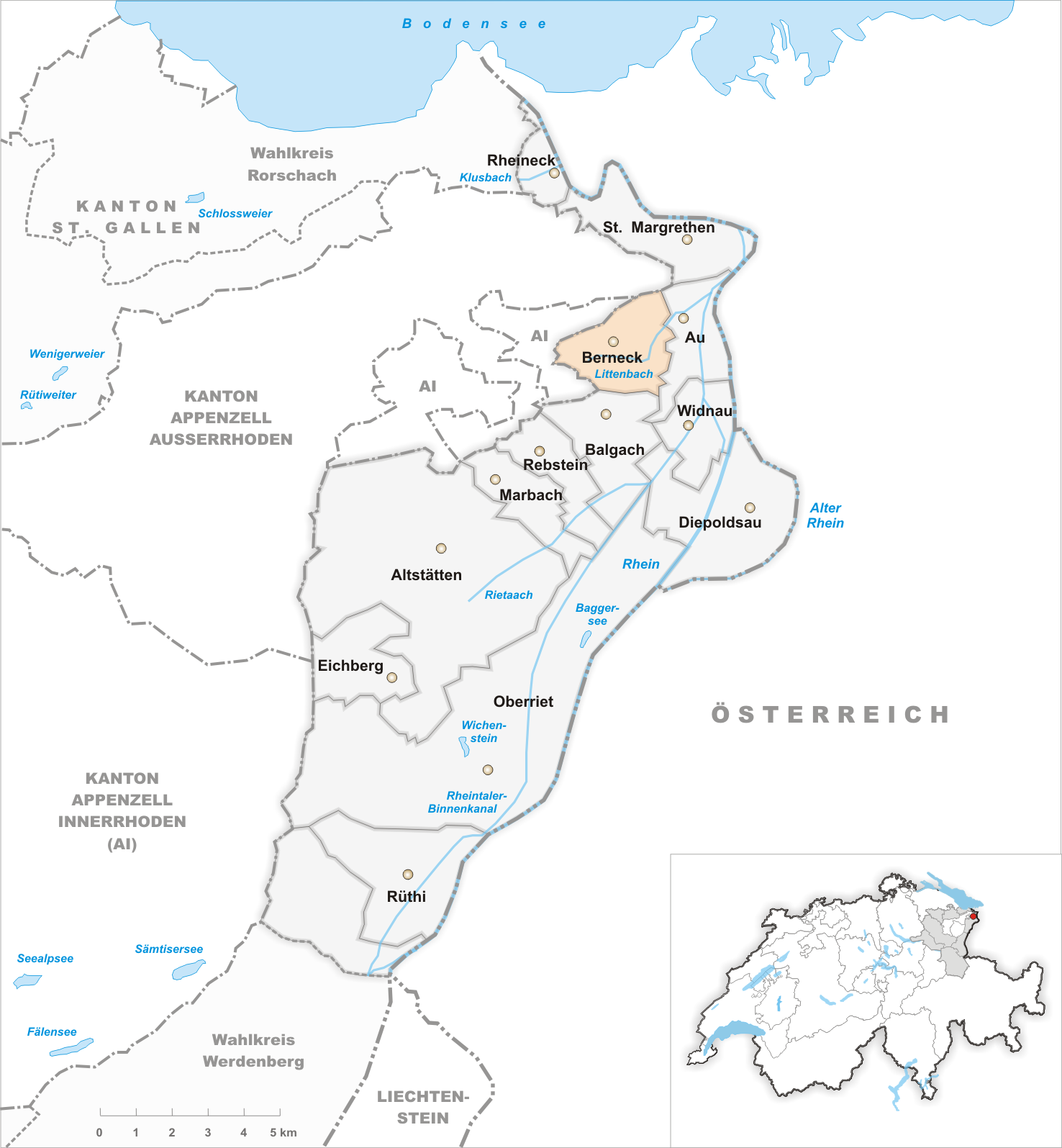 Municipality Berneck